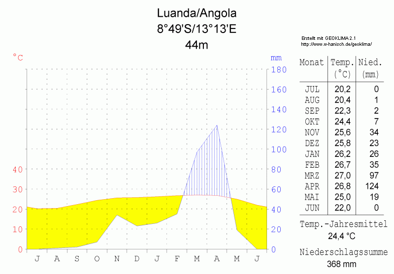 climate chart in the format by Walther and Lieth